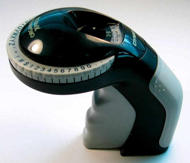 A Dymo embosser, for making embossing tape labels.